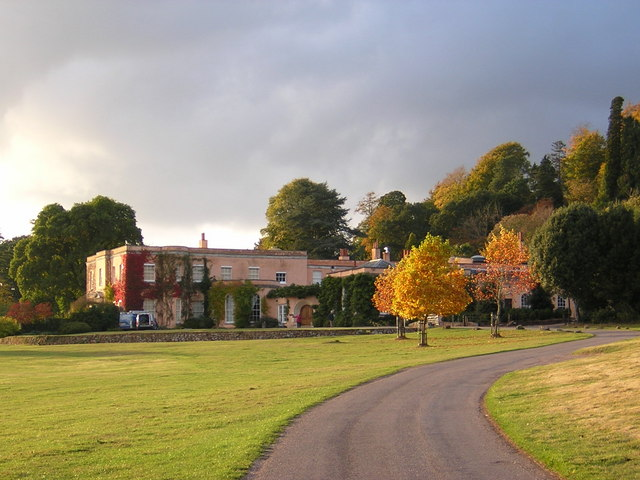 Killerton House in Autumn Killerton House at Budlake near Exeter, in all it's Autumn splendour